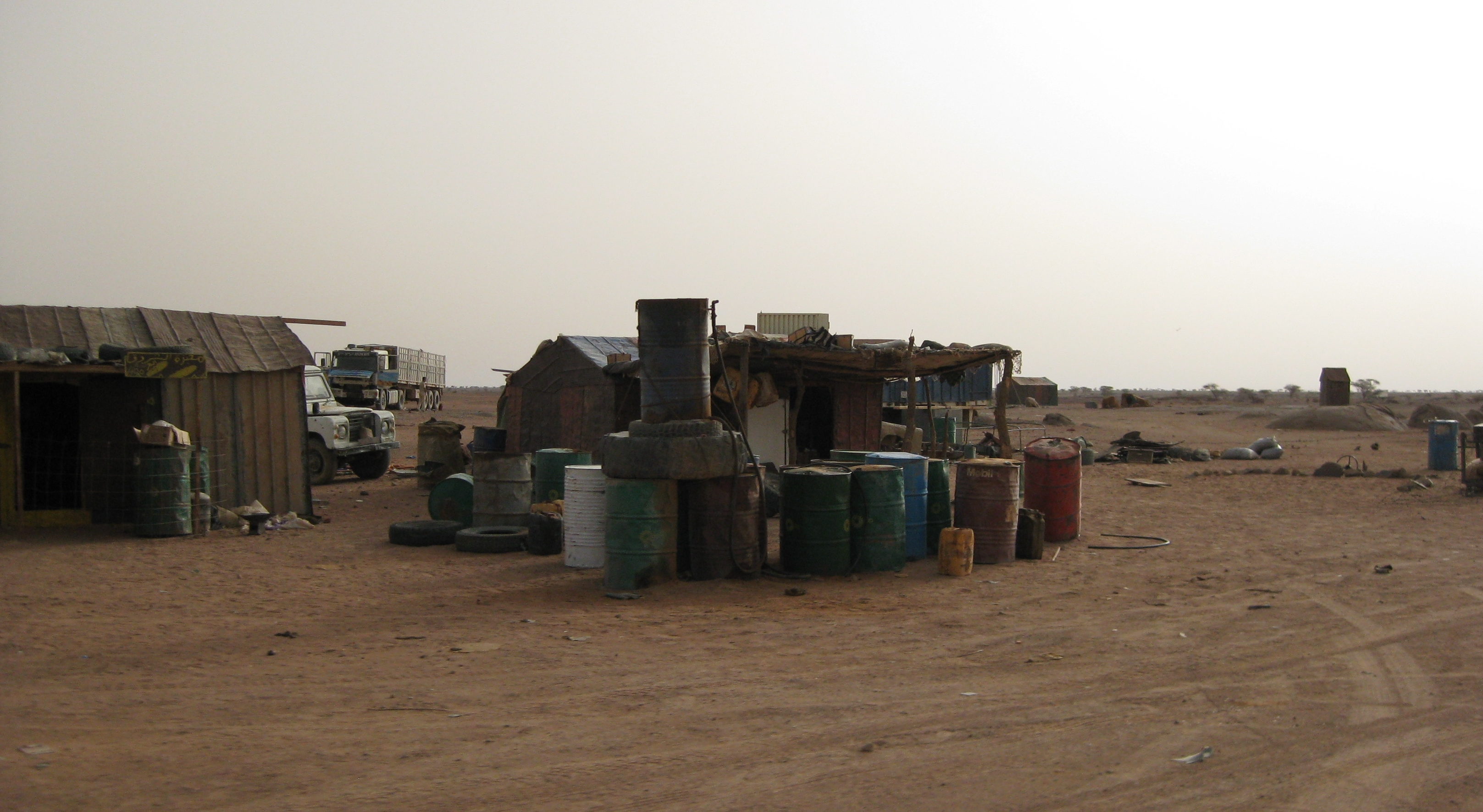 Gas station in Bir Lehlou, liberated Western Sahara.